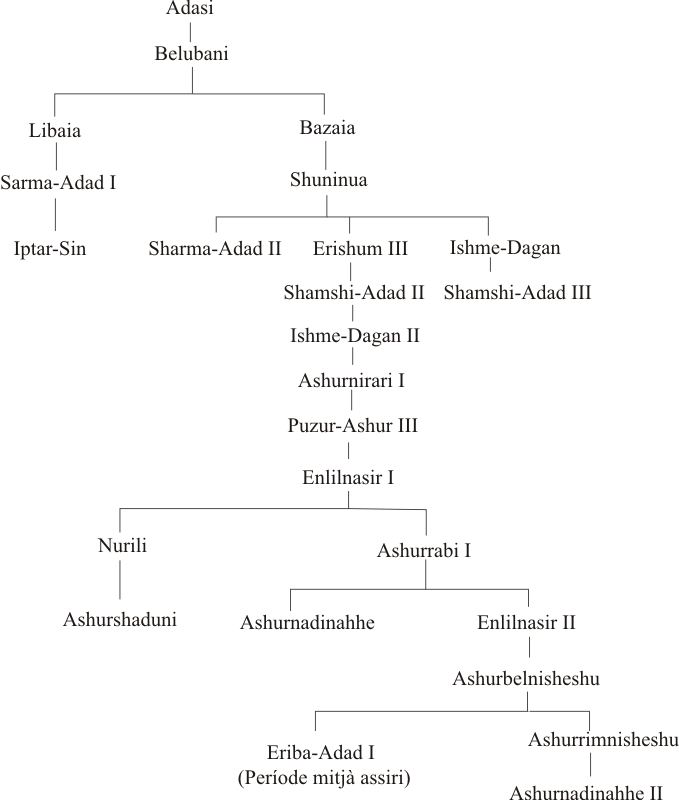 assyrian genealogy, old period